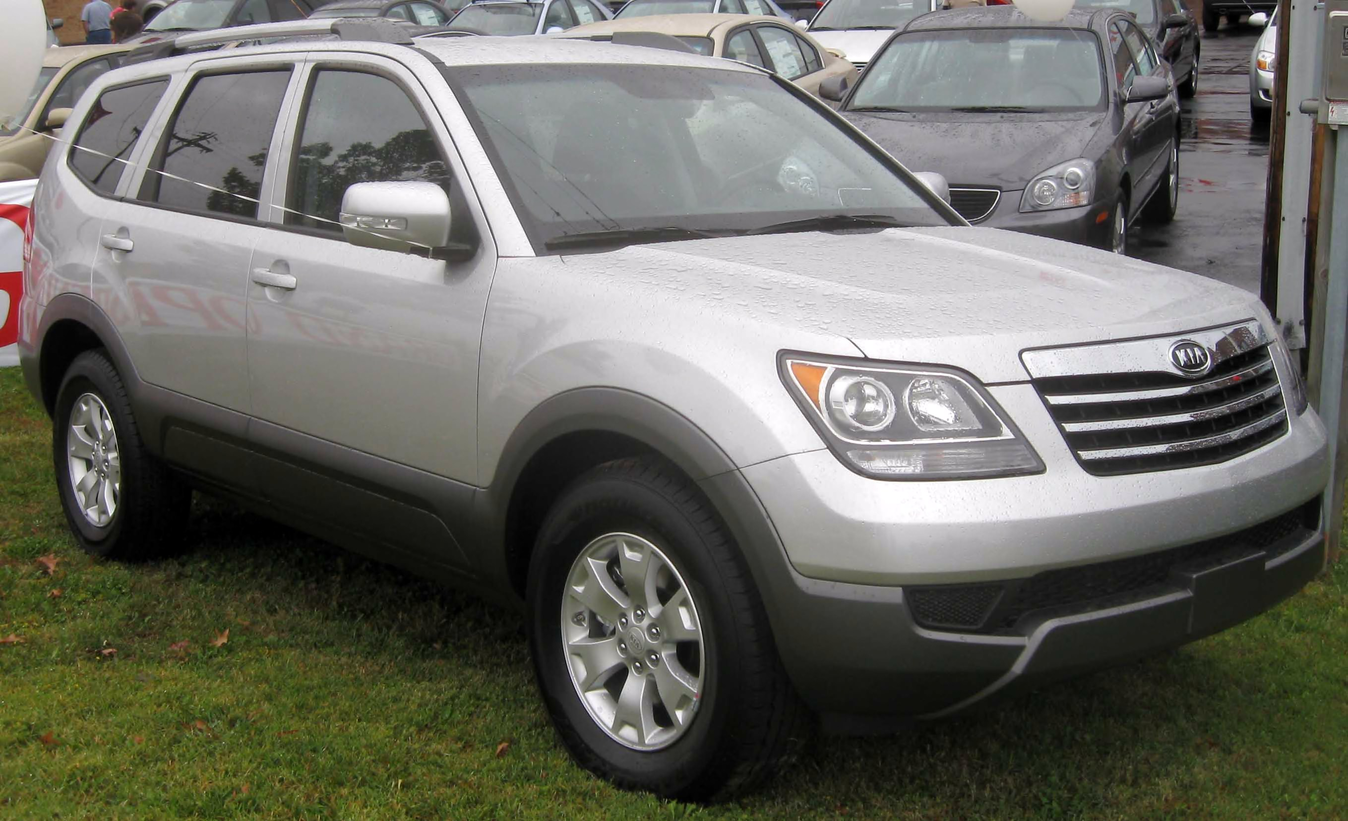 2009 Kia Borrego photographed in Waldorf, Maryland, USA.